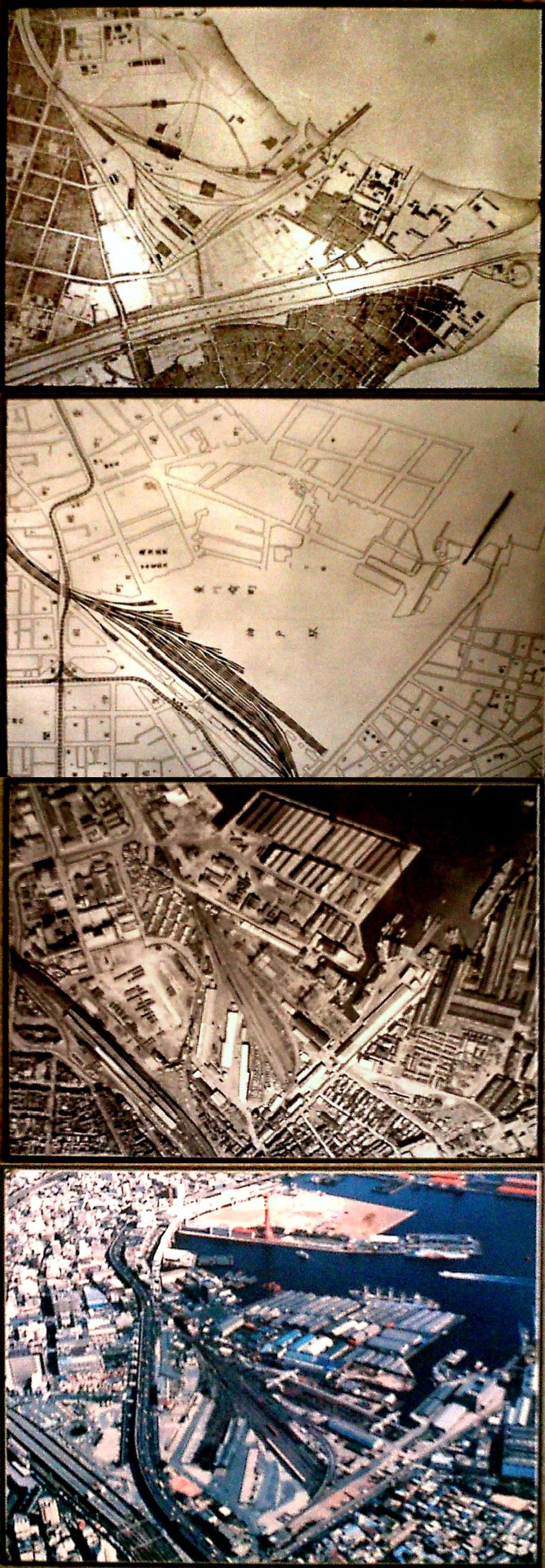 Change_around_Kobe_station_and_Kobe_Harbor_Land